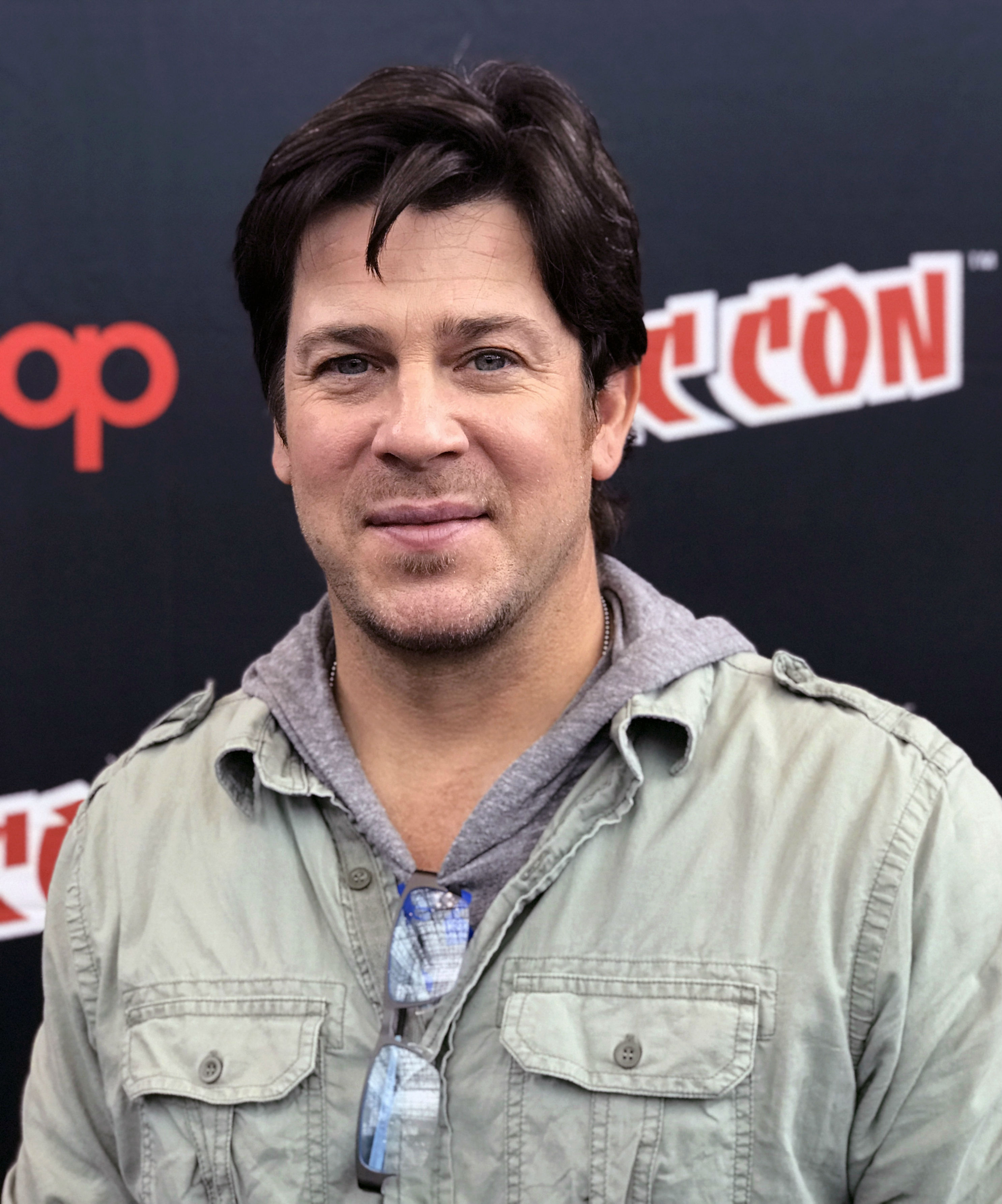 Actor/singer/songwriter Christian Kane at the Electric Entertainment Press Room, where the TV series The Librarians and the film Bad Samaritan were being promoted, on Thursday, October 5, 2017 at the Jacob K. Javits Convention Center in Manhattan, Day 1 of the 2017 New York Comic Con. This photo was created by Luigi Novi. It is not in the public domain, and use of this file outside of the licensing terms is a copyright violation.